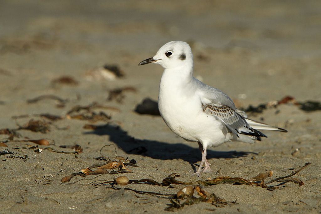 Bonaparte's Gull Chroicocephalus philadelphia, first-winter, Morro Bay, California.